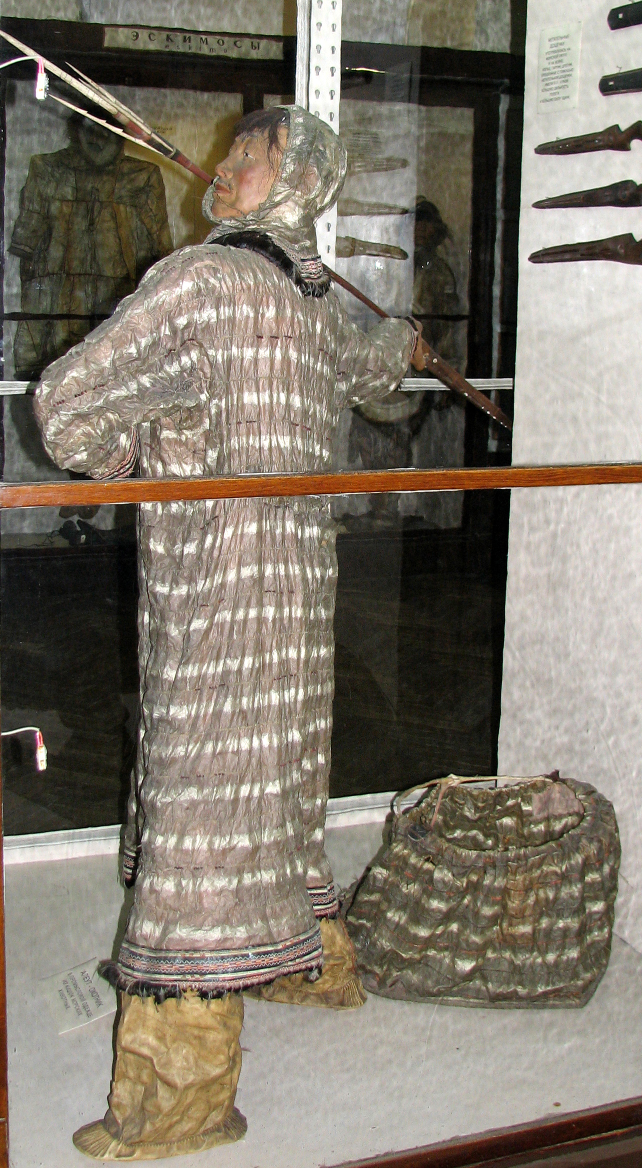 Saint Petersburg. Kunstkamera. Hall of North America. Culture of Aleuts. The Aleut-hunter. The clothes are made of guts of sea animals. The javelin is placed in a throwing plate (the hunter holds it in a hand). Because of it, the distance of flight of a javelin increases it is triple. The clothes and equipment of the end of a XIX-th century.